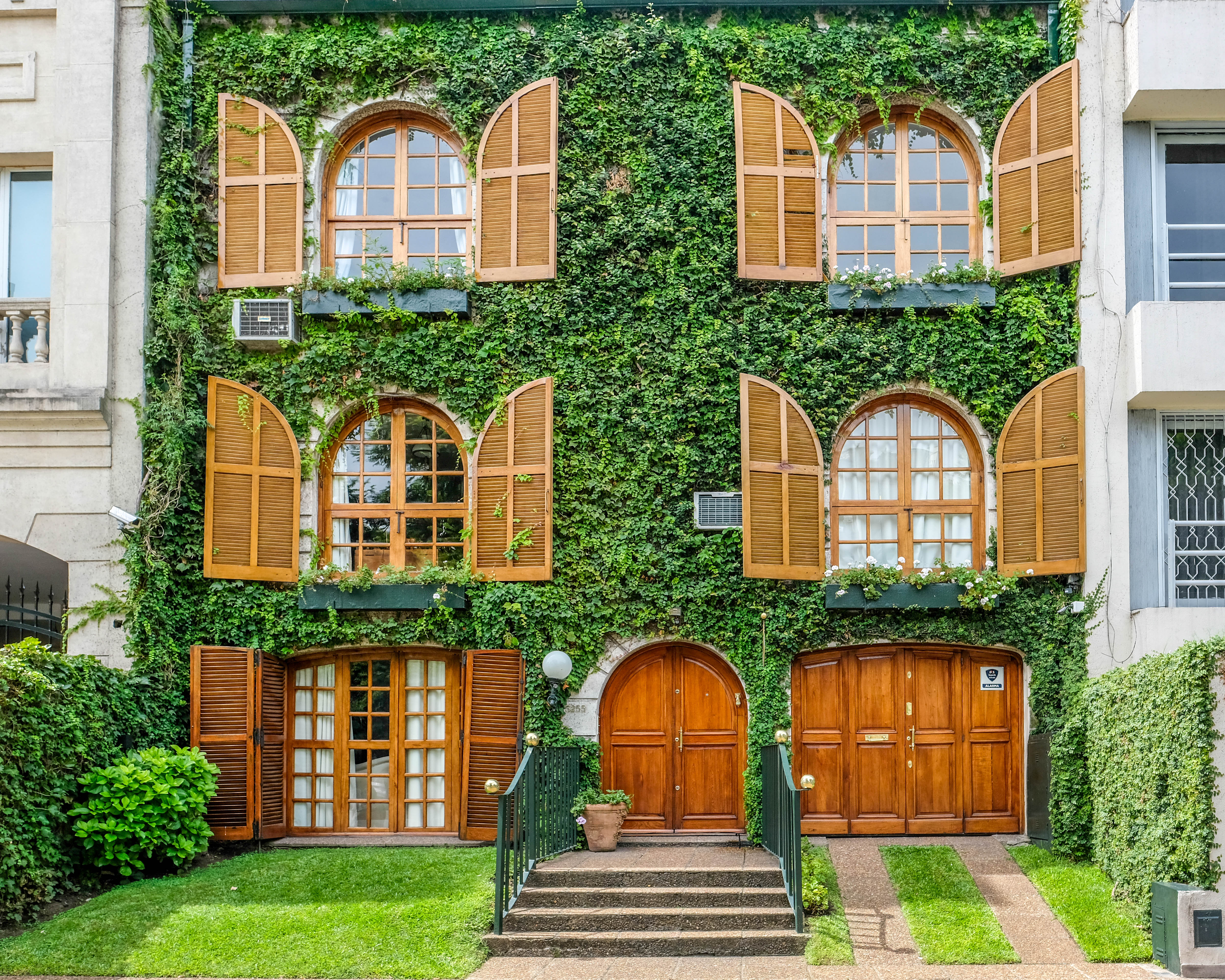 Buenos Aires: beautiful ivy-covered facade